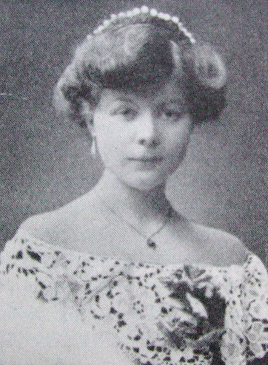 Picture of Else Kleen, Swedish journalist and writer